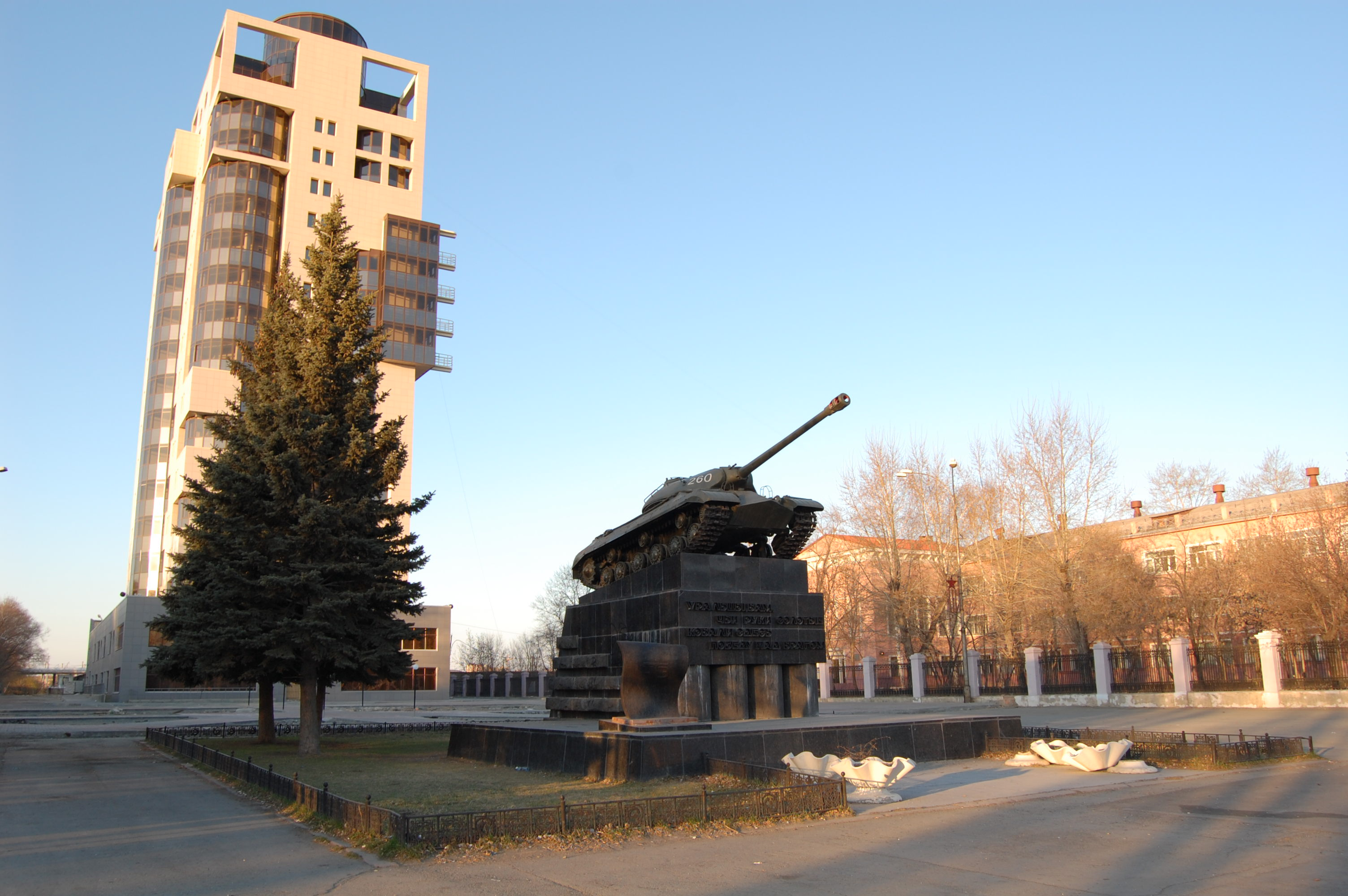 Komsomol Square (Комосомольская площадь) in Chelyabinsk, Russia. A factory that produced tanks like the one in the middle during WWII is located only 1 kilometer east.